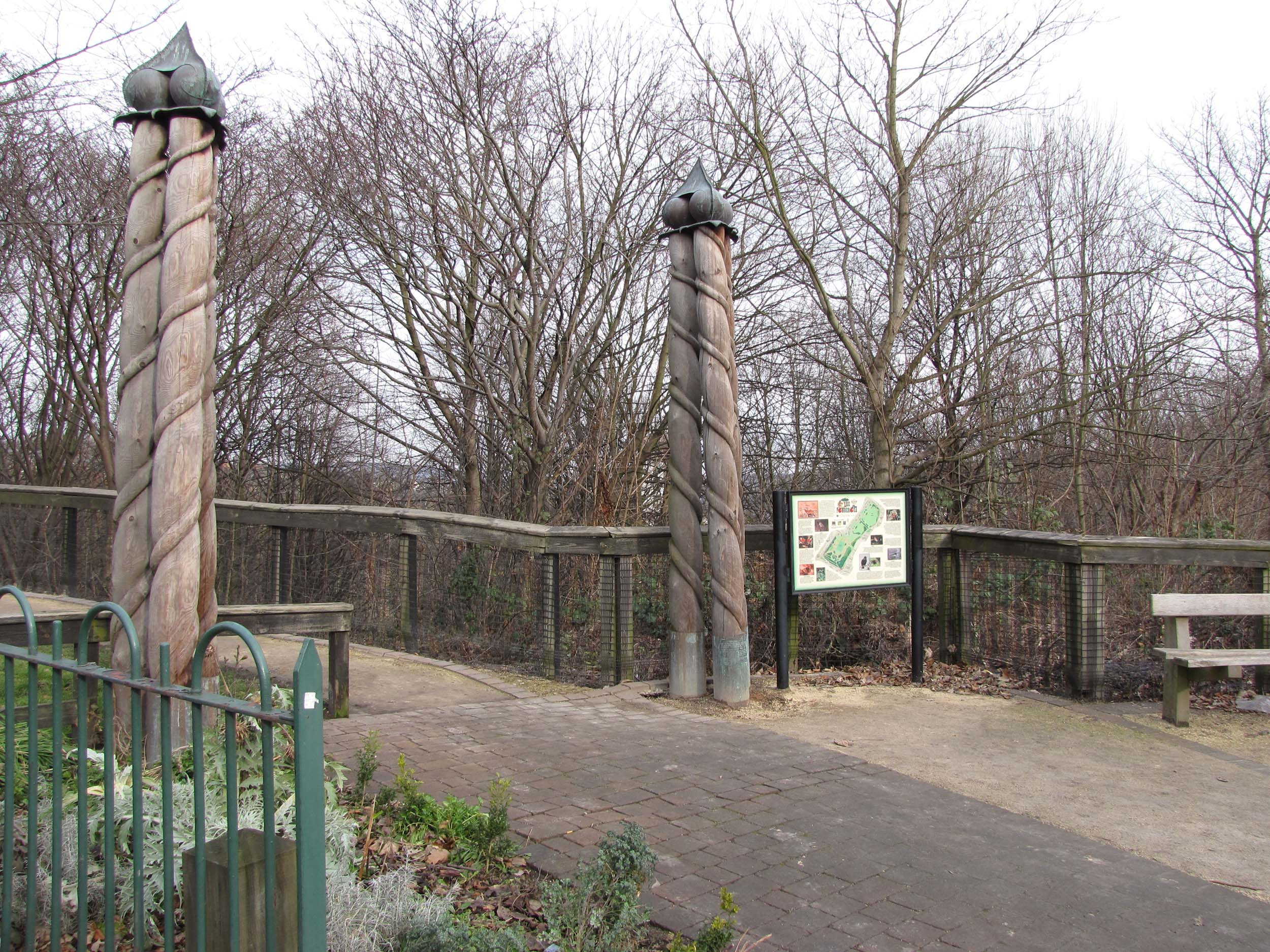 The Ponderosa Open Space & Recreation area in Sheffield, South Yorkshire, England. This is the Crookes Valley Road entrance.